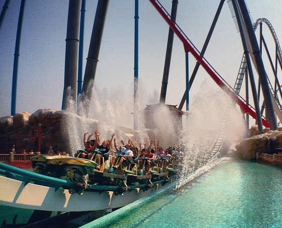 Train of Shambhala crossing the lake at PortAventura, Spain.